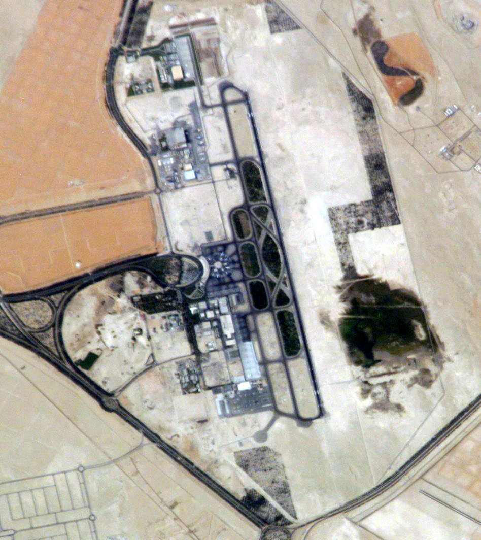 Picture taken by International Space Station in March 2003